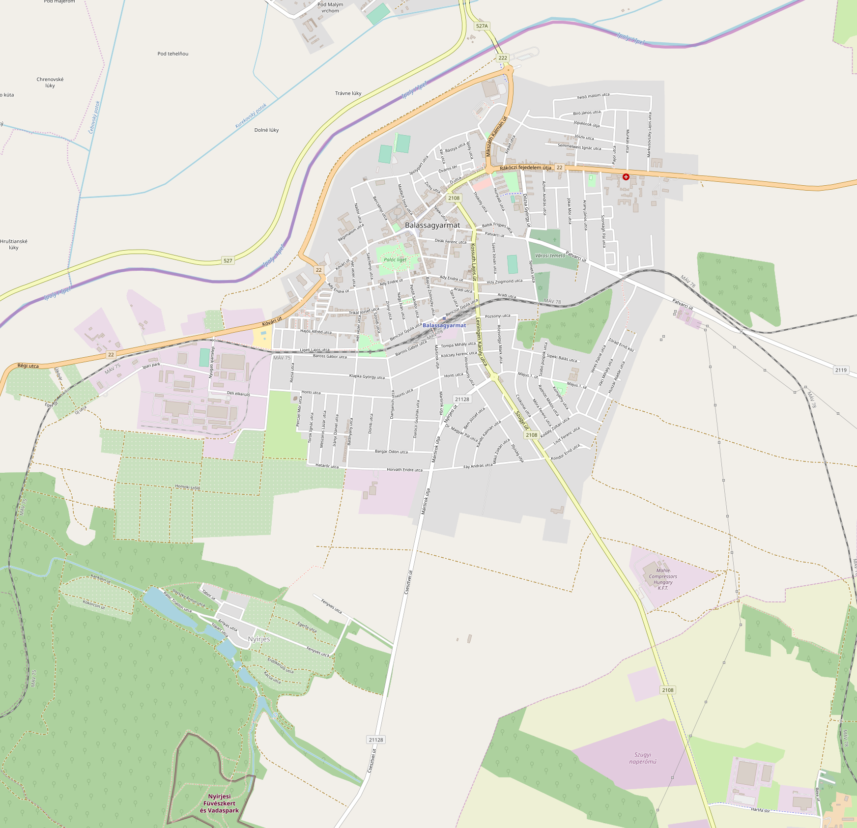 Map of Balassagyarmat